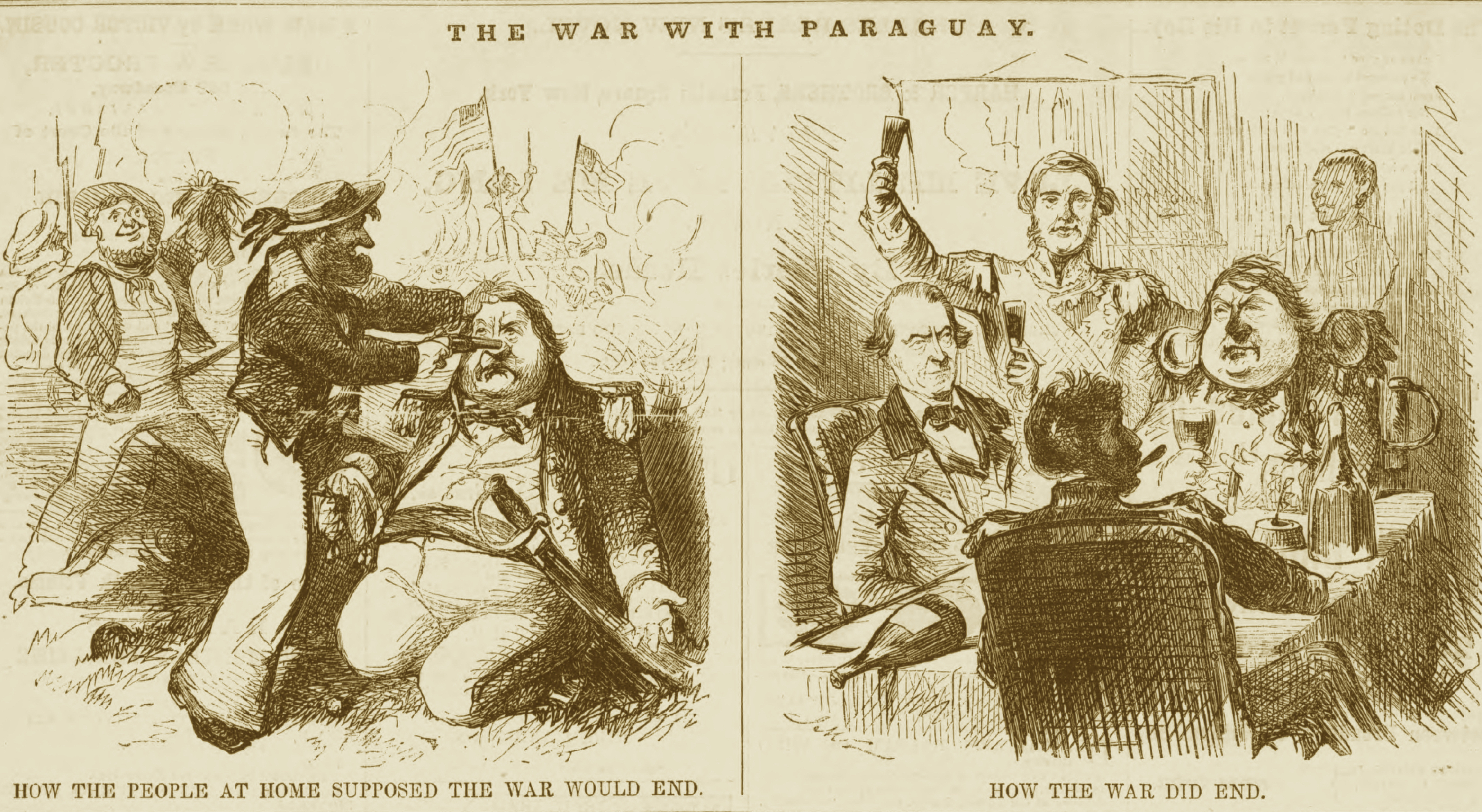 Cartoon in Harper's Weekly, April 30, 1859. The U.S. sent a 19-ship expedition to South America to intimidate Paraguay, but it ended in diplomacy